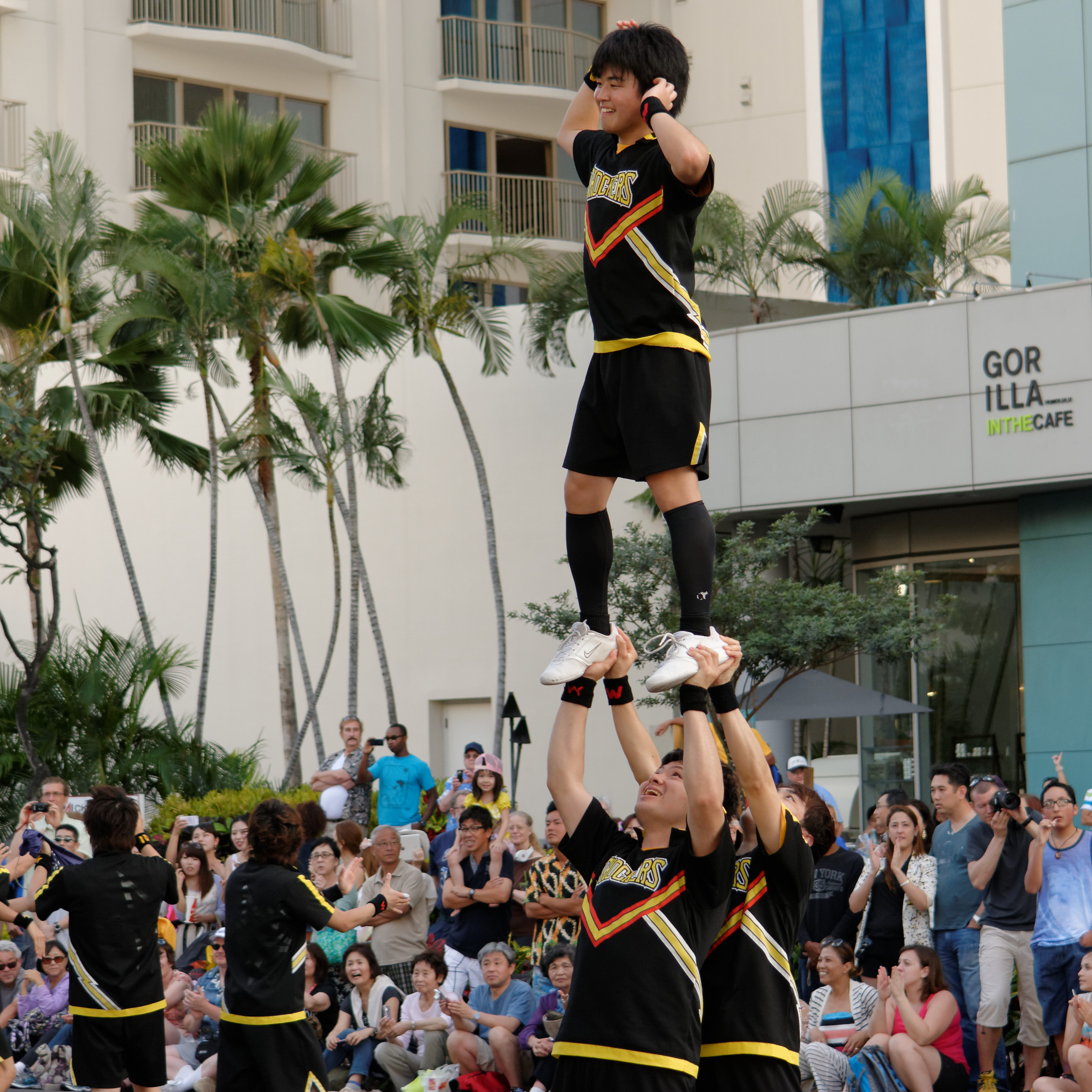 Honolulu Festival 2014 - Waseda University All Boys Cheerleading Team "Shockers"